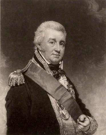 Portrait of Alexander Cochrane (1758-1832)